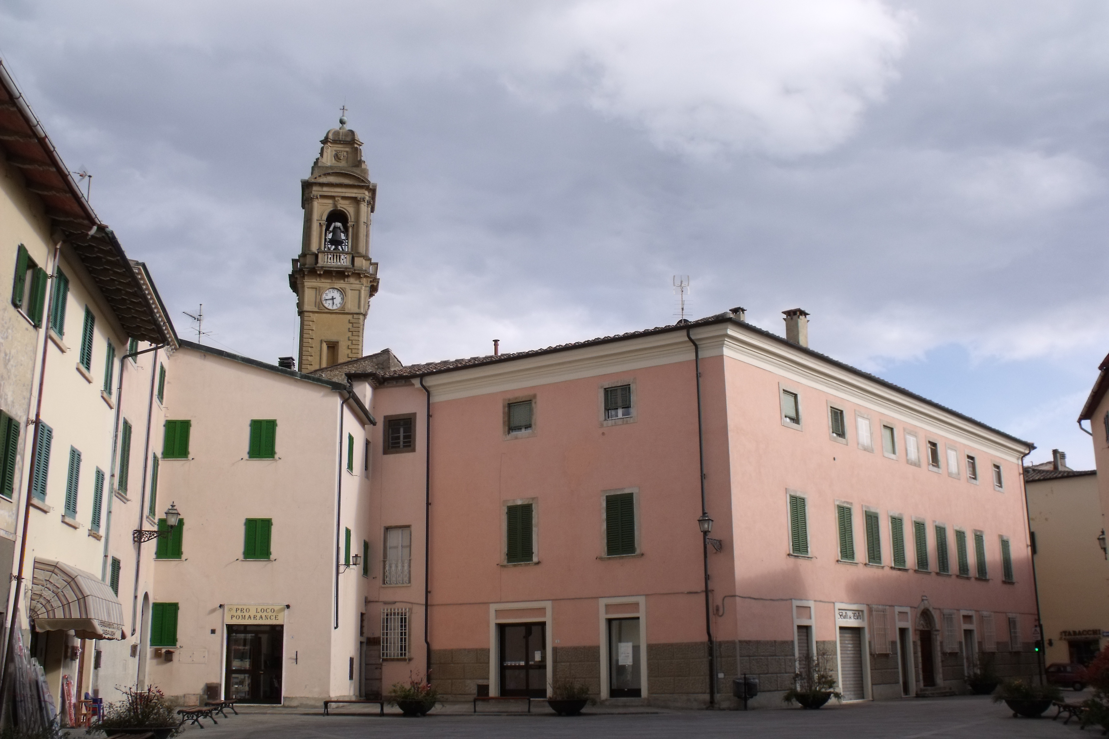 Piazza De Larderel with Campanile of San Giovanni Battista, Main square in Pomarance, Province of Pisa, Tuscany, Italy